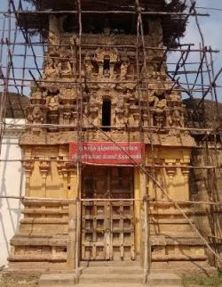 Thalikesvarartemple தளிகேசுவரர் கோயில்